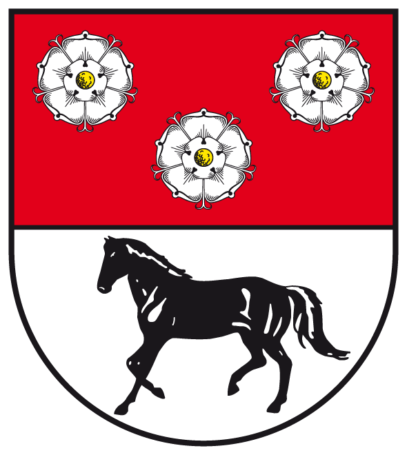 Coat of Arms of VG Börde-Hakel